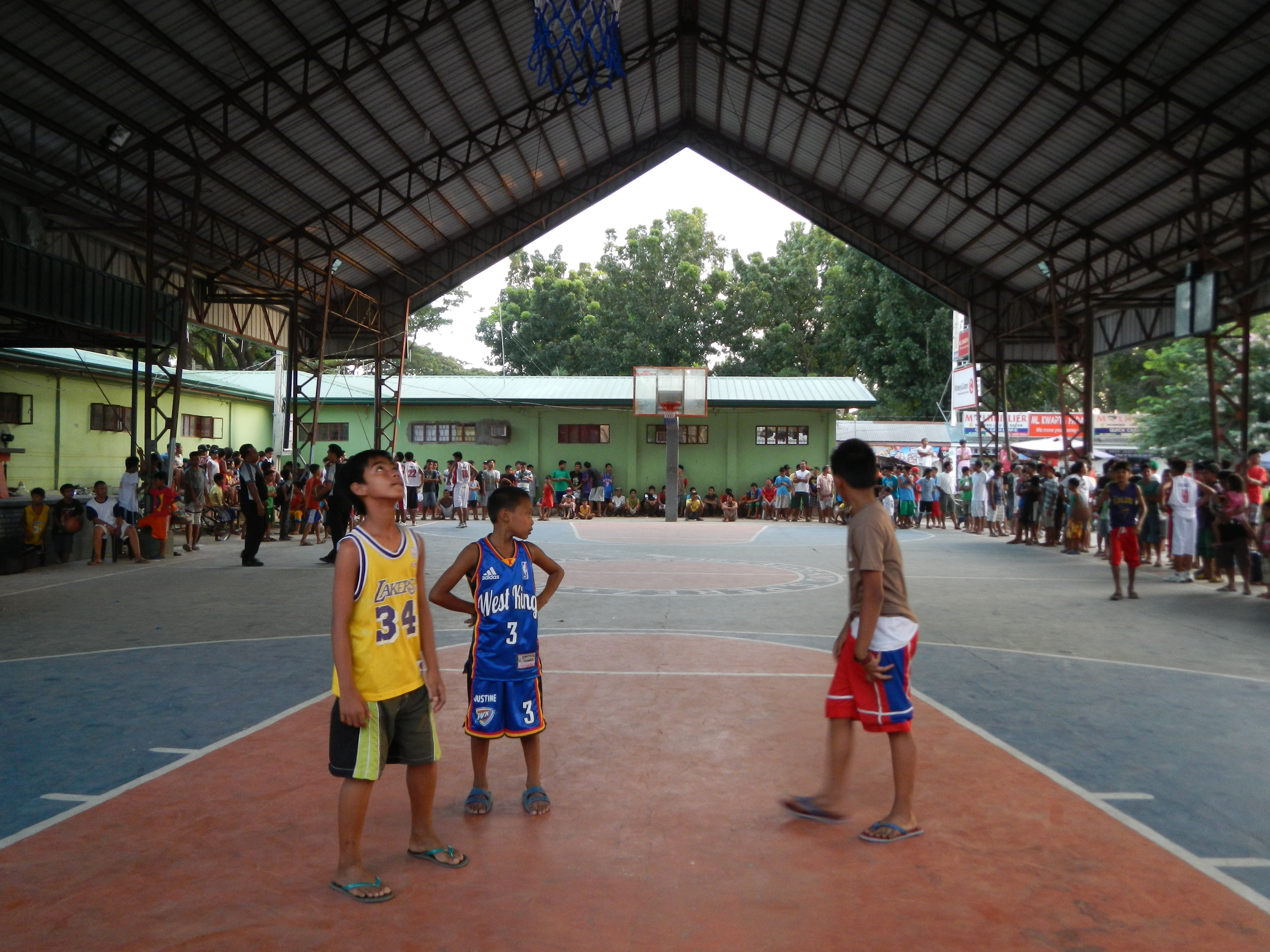 San Manuel, Pangasinan[1][2][3][4] Covered court with basketball hoop and players